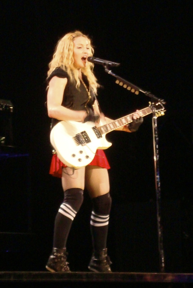 Dress you Up